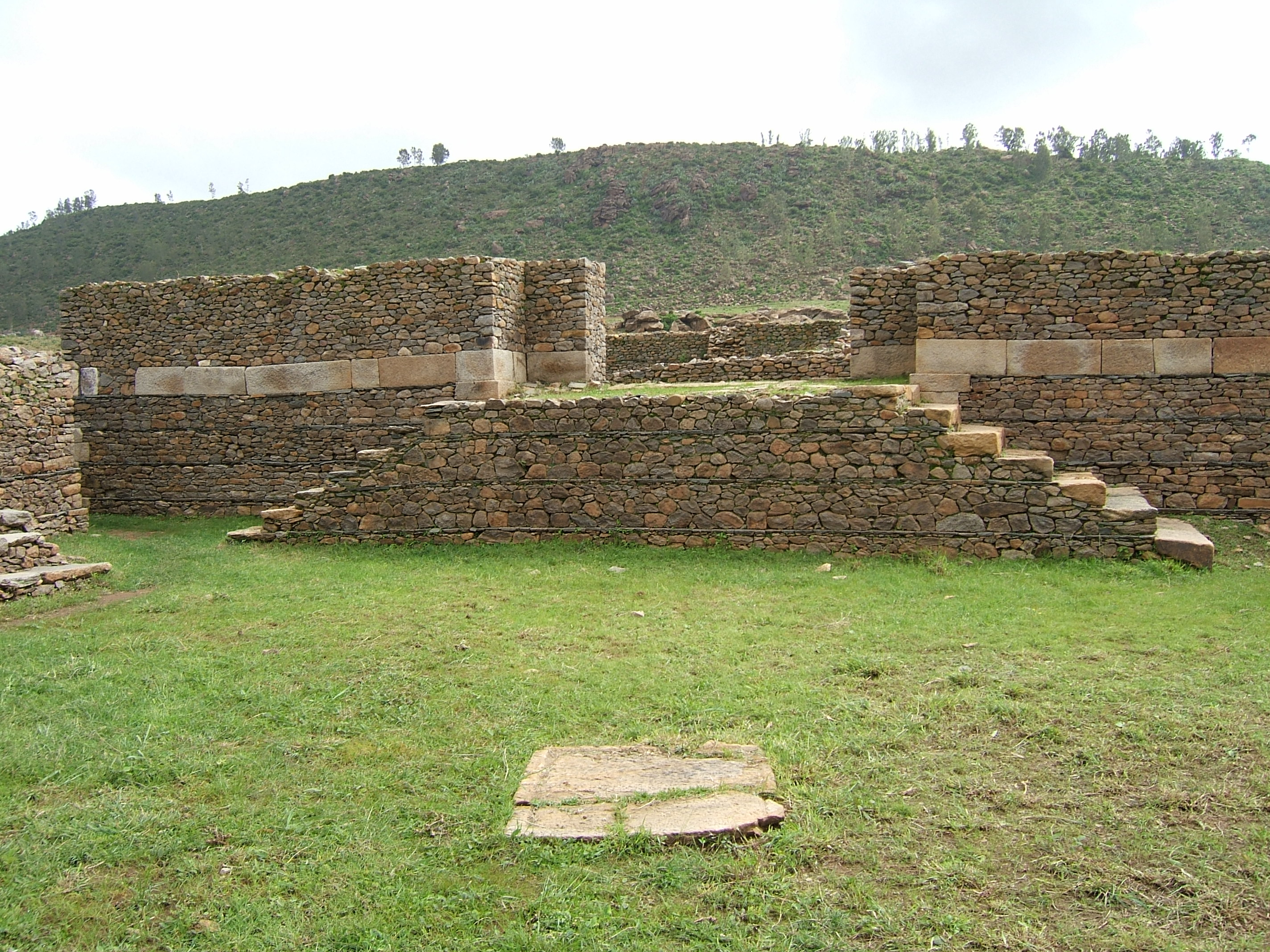 Ruins of Dungur near Aksum